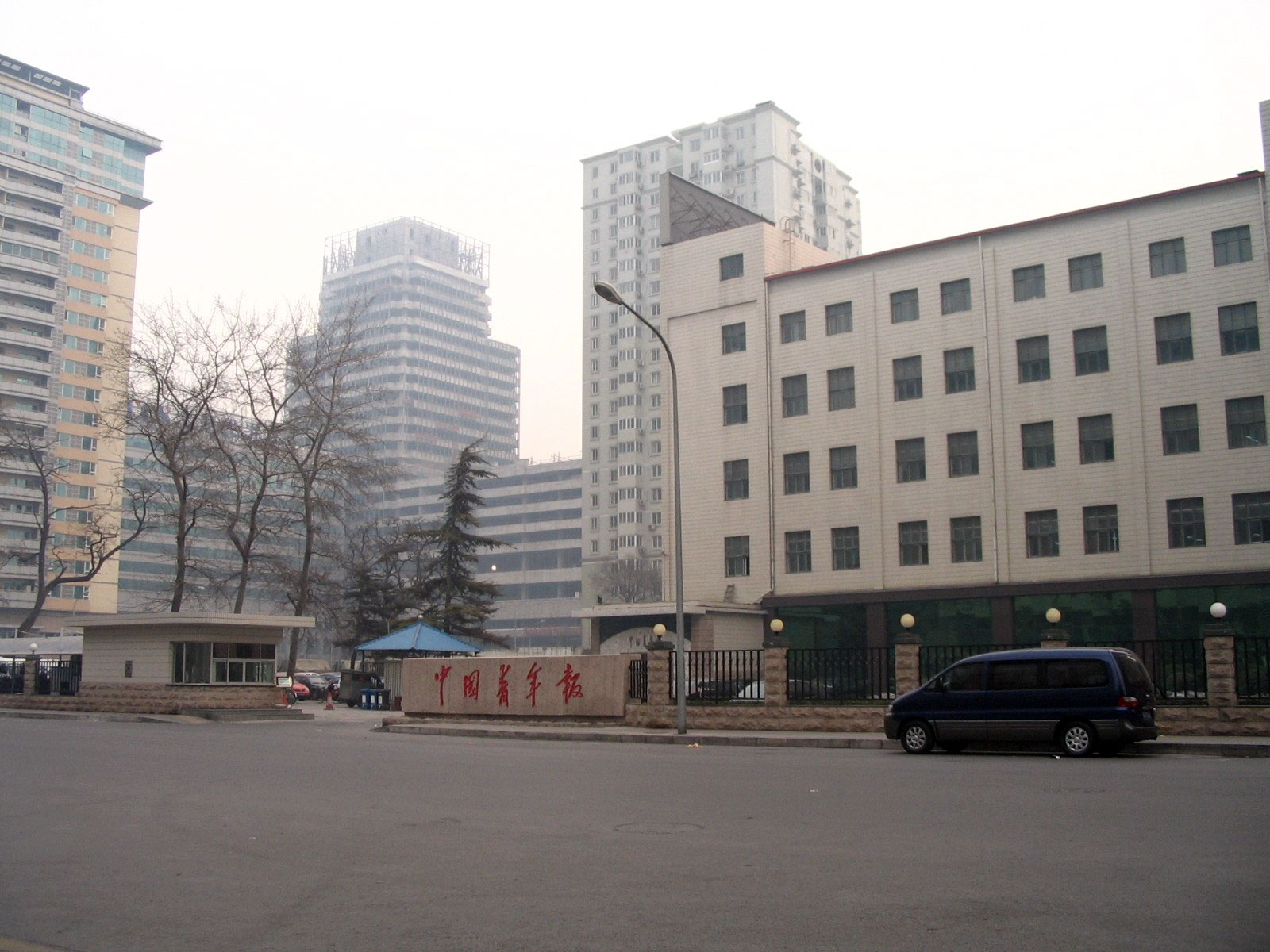 The headquarter of China Youth Daily, located at No. 2 Haiyuncang, Dongzhimen, Beijing. 中国青年报总部，位于北京市东城区东直门海运仓2号。